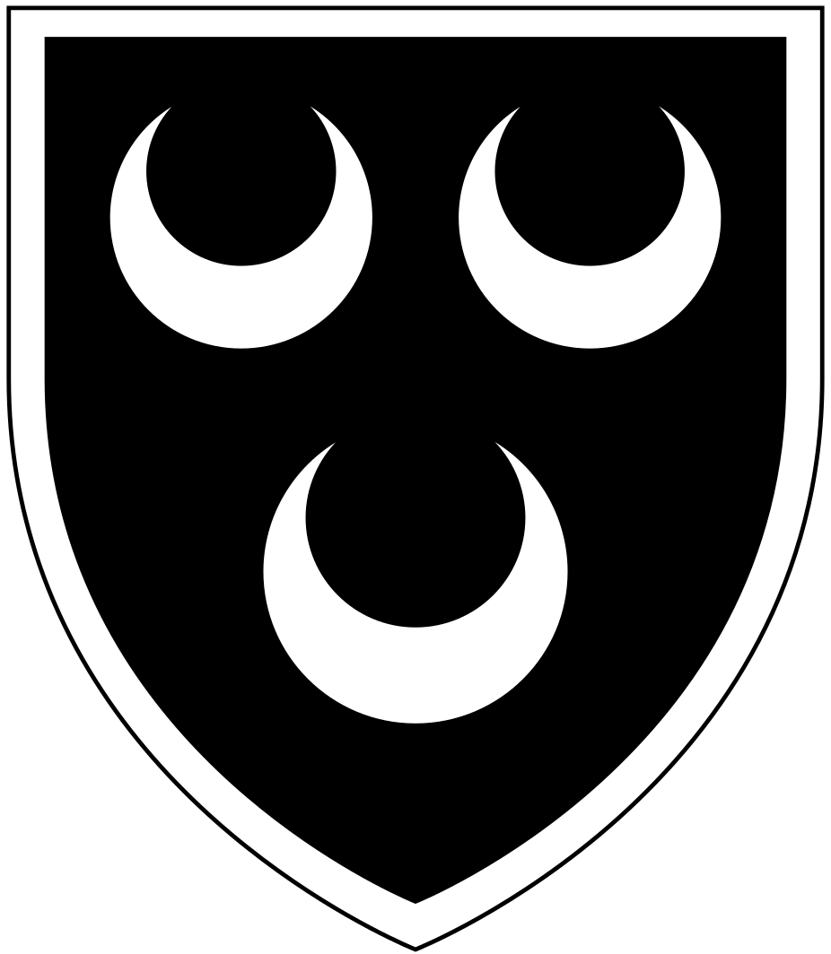 Arms of Harris of Hayne in the parish of Stowford, Devon: Sable, three crescents argent a bordure of the last (Vivian, Lt.Col. J.L., (Ed.) The Visitations of the County of Devon: Comprising the Heralds' Visitations of 1531, 1564 & 1620, Exeter, 1895, p.449)